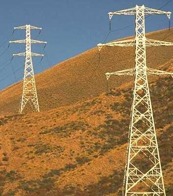 Transmission towers marching through the countryside (no location given)